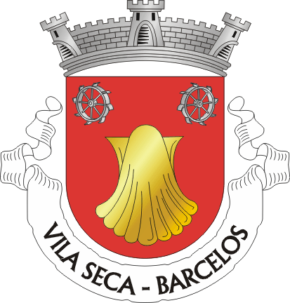 Crest of Vila Seca, a parish in the municipality of Barcelos (Portugal)